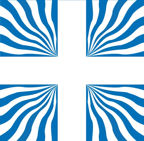 Old military flag of the Republic of Zurich according to a contemporary drawing 1792